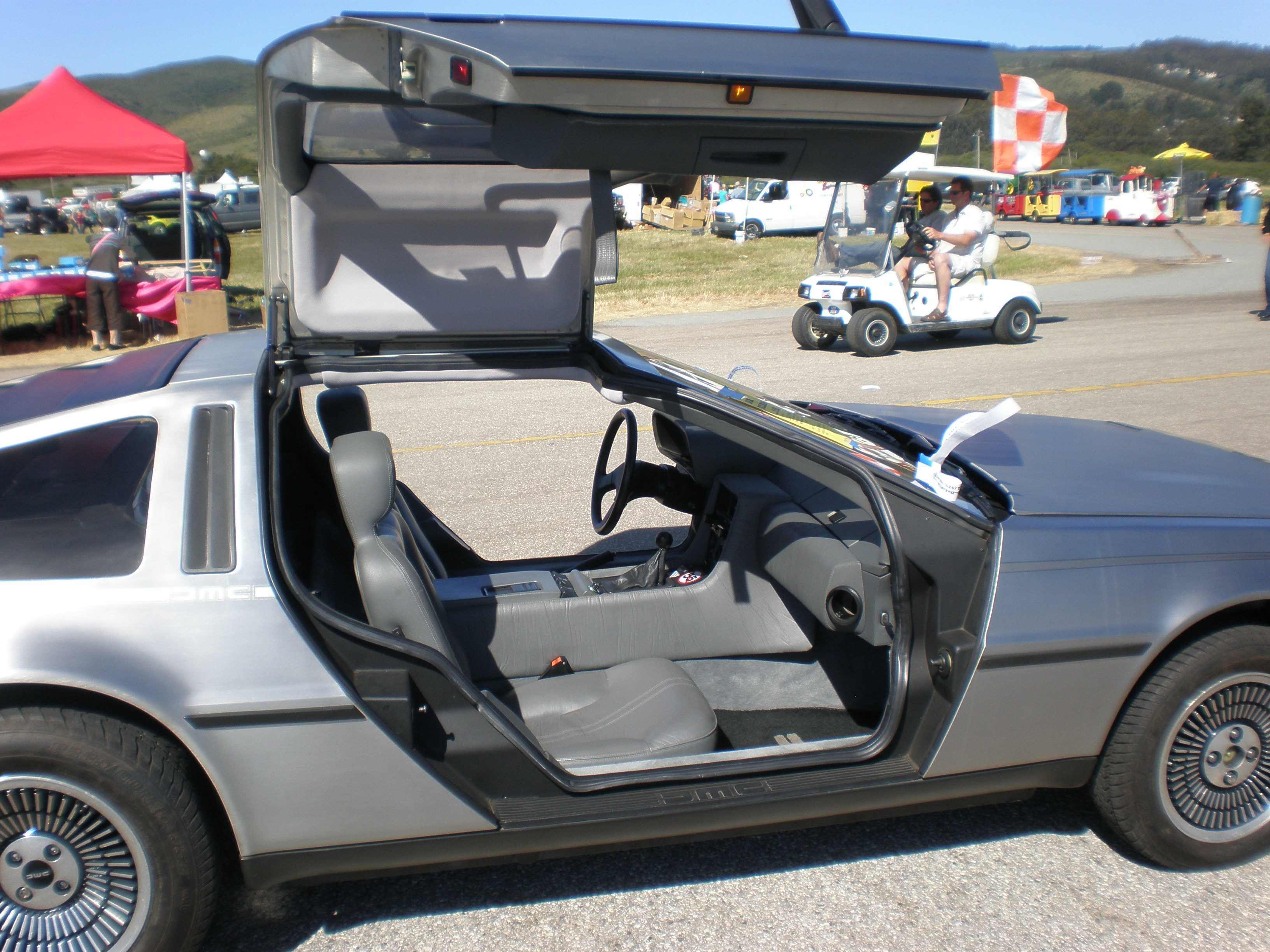 A 1982 DeLorean DMC-12 at the Pacific Coast Dream Machines vehicle show at the Half Moon Bay Airport in Half Moon Bay, California